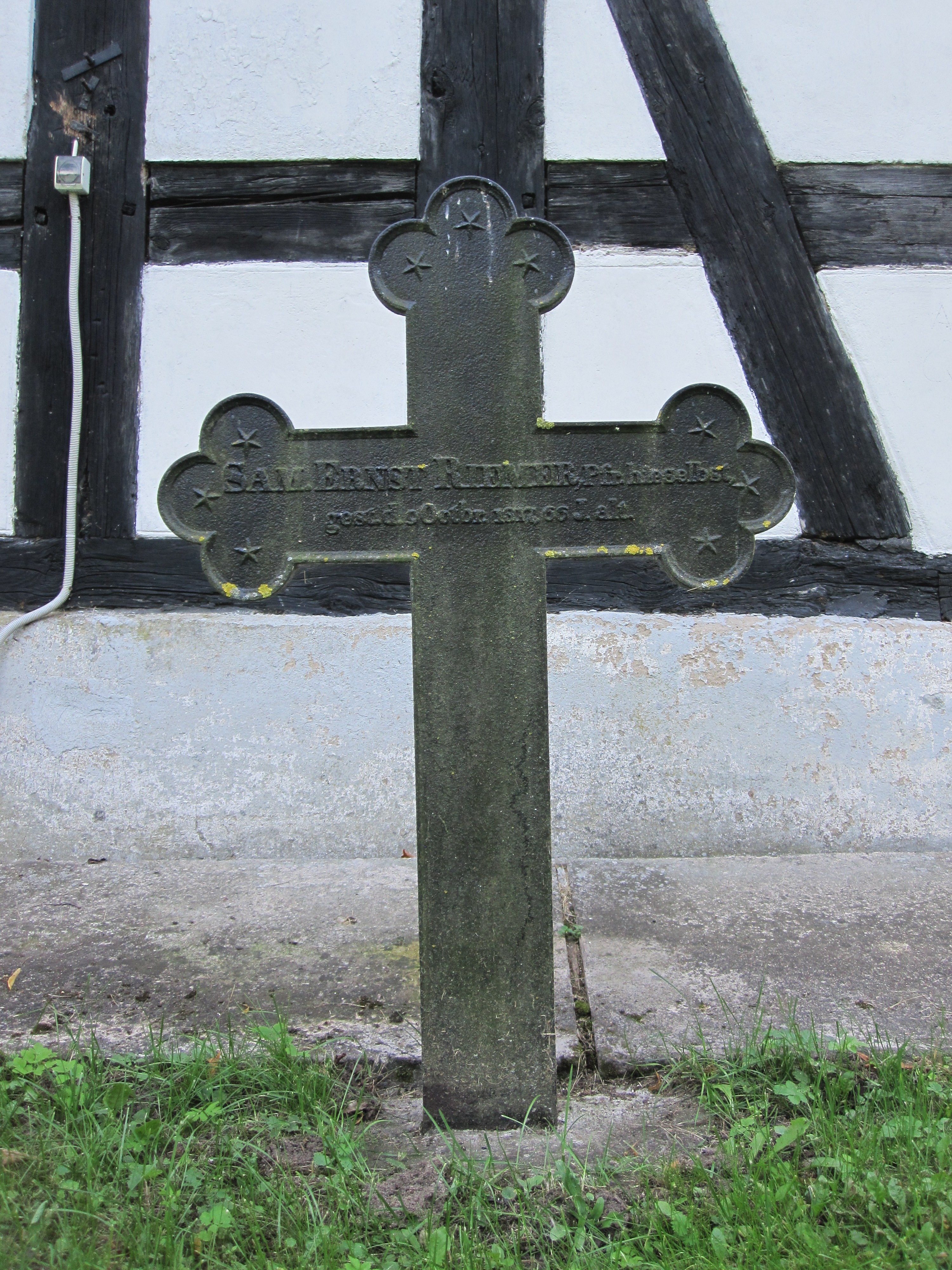 Maximilian Kolbe church in Jerutki